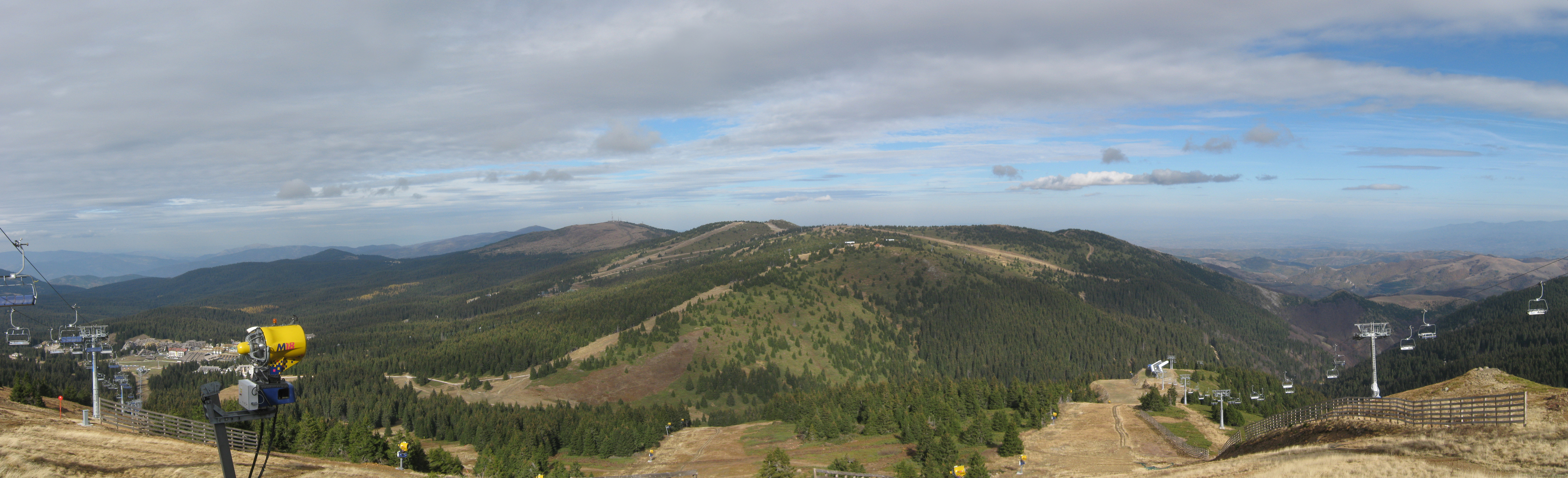 Kopaonik panorama